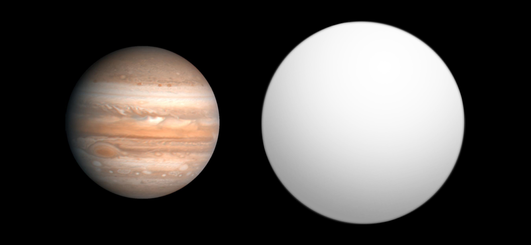 Comparison of best-fit size of the exoplanet Kepler-6 b with the Solar System planet Jupiter, as reported in the Extrasolar Planets Encyclopaedia[1] as of 2010-10-03. ↑ Extrasolar Planets Encyclopaedia (2010-09-30). Retrieved on 2010-10-03.